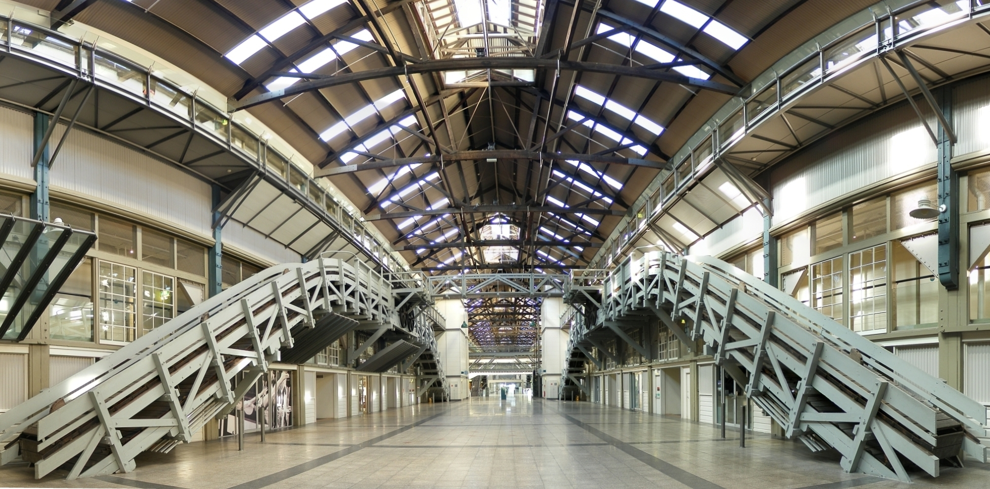 Inside the finger wharf at Woolloommoolloo, New South Wales. Also the residence of Russell Crow (Actor).